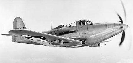 Description: Bell P-63 in flight. Note the underwing pods. (U.S. Air Force photo)